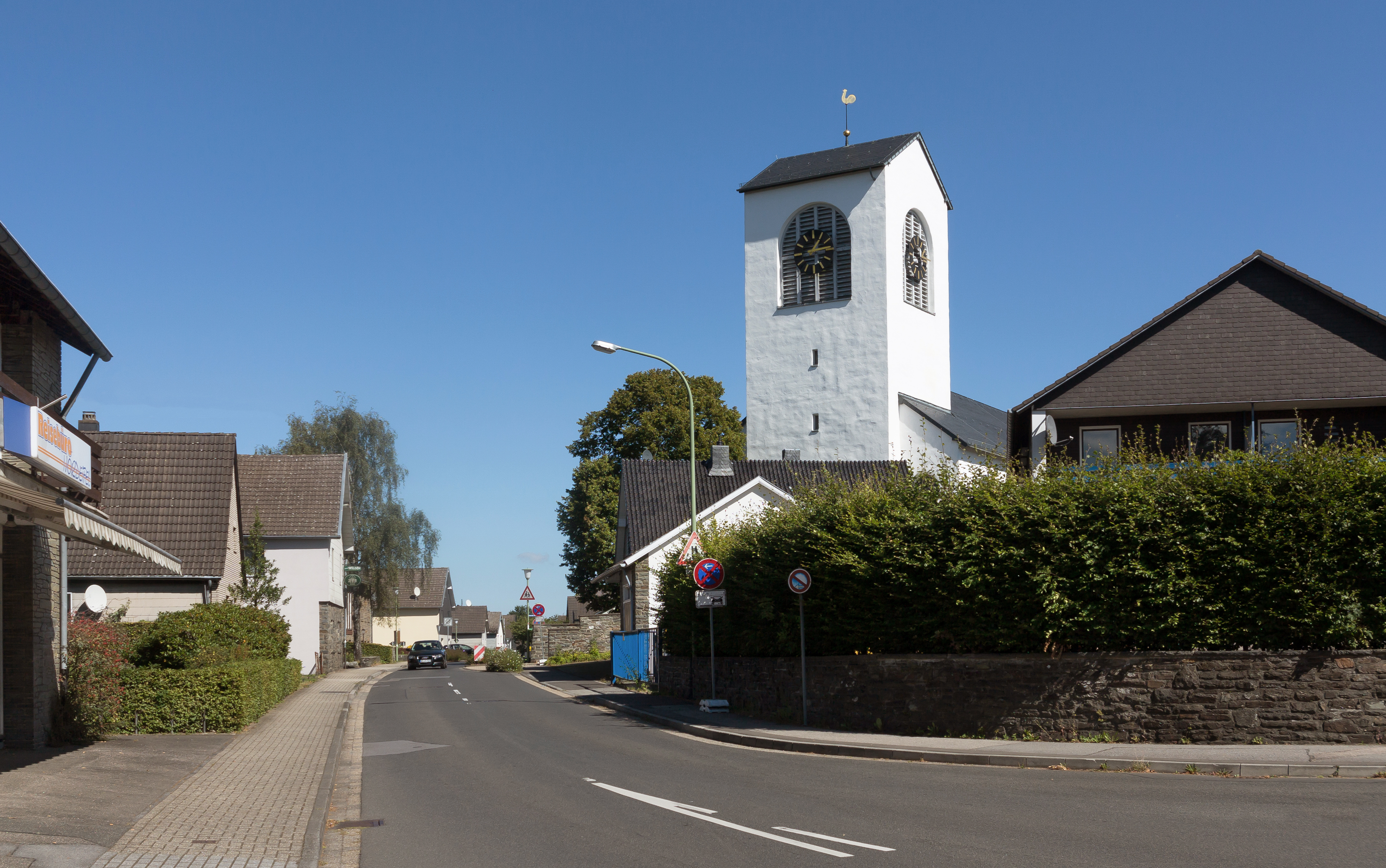 Simmerath, the parish churchThis is a photograph of an architectural monument., no. 26